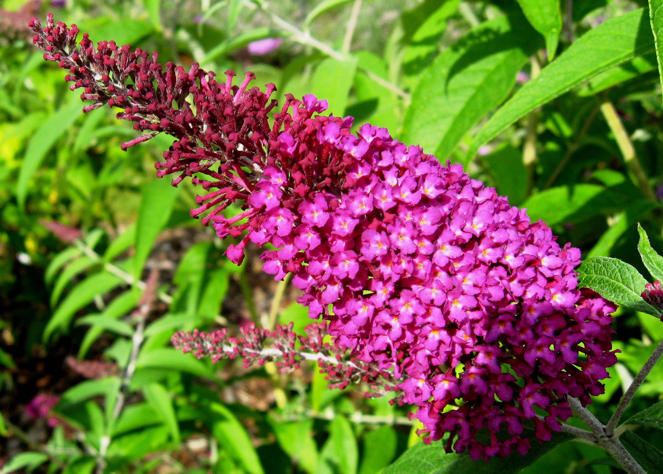 Photo of Buddleja cultivar taken at Longstock Park Nursery, UK, NCCPG national collection holder